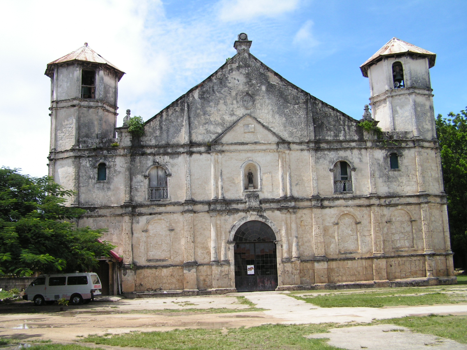 self-taken